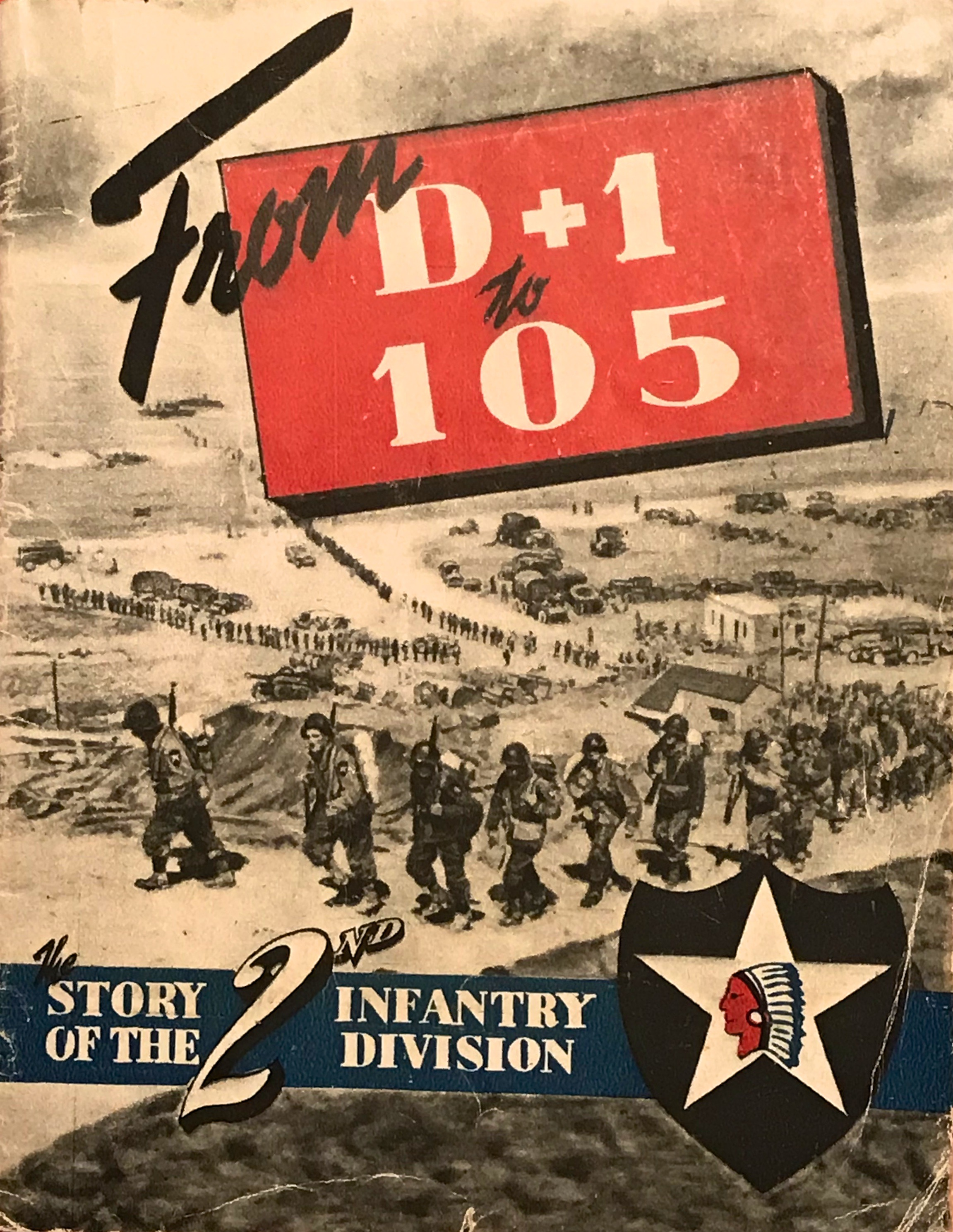 Cover of the US Army 2nd Infantry Division World War II history booklet: From D+1 to 105. The Story of the 2nd Infantry Division. Background photo is of the division's landing at Omaha Beach on D+1, 7 June 1944.